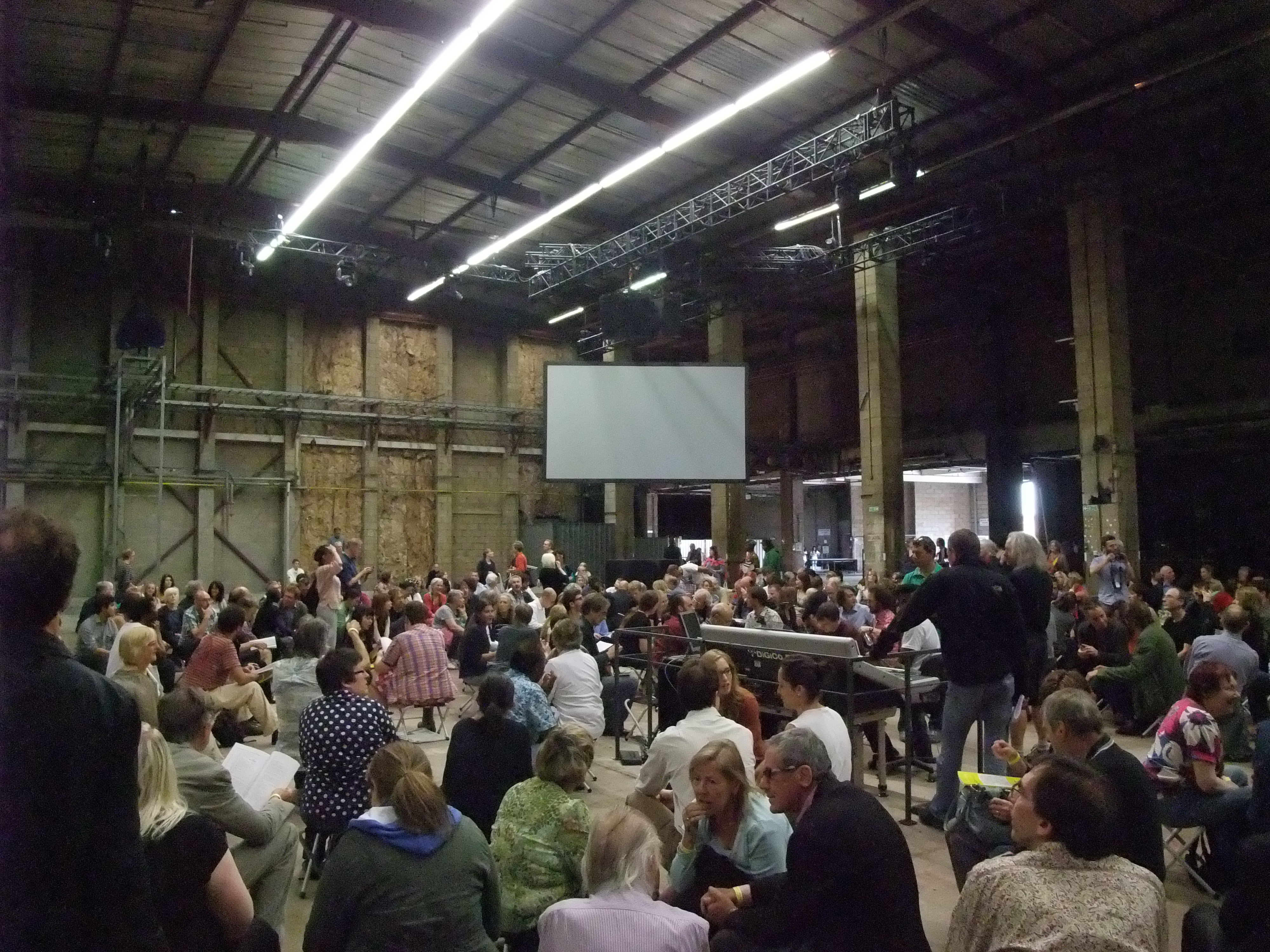 Inside the Argyle Works, Digbeth, Birmingham, before the dress rehearsal on Tuesday, 21 August 2012, for Karlheinz Stockhausen's opera Mittwoch aus Licht (Wednesday from Light). Staged world premiere production by Birmingham Opera, Graham Vick (director), Kathinka Pasveer (musical director). The opera's Greeting, third scene (Helicopter String Quartet), and the Farewell were given in this first of two performance spaces. Photograph by Jerome Kohl.